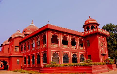 Building of Lalit Naryan Mithla University, Darbhanga Bihar